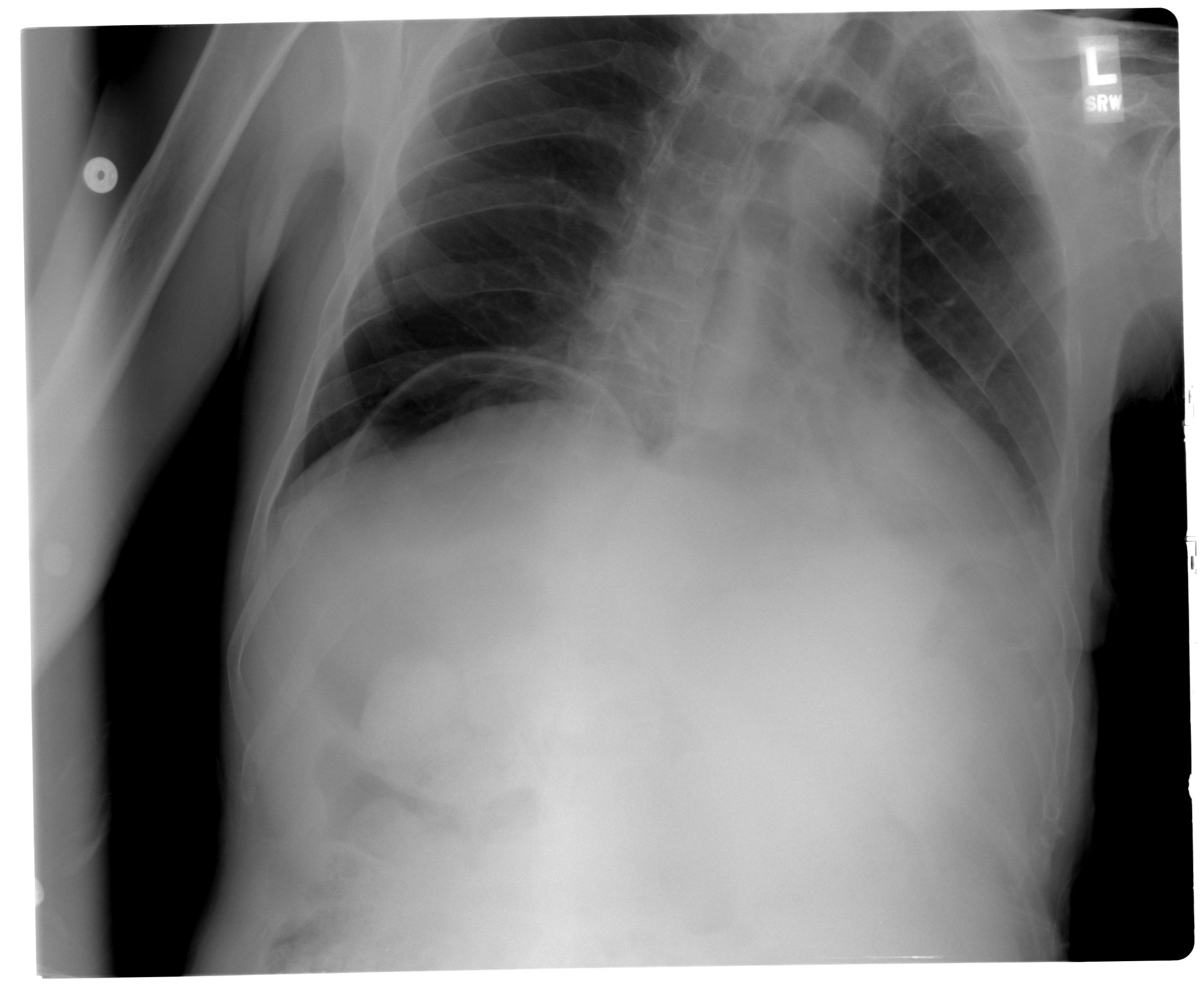 a classic for your consideration